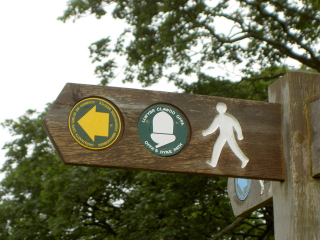 Offa's Dyke Path signpost. pointing in the direction of Foel Fenlli.